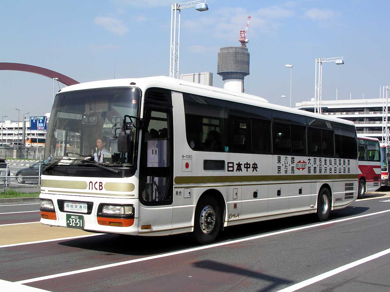 Fleet of Nippon Chuo Bus, for intercity and airport limousine route. Model: Isuzu Gala KC-LV781R1 License plate: GMG22 A3251 Place: Tokyo International Airport